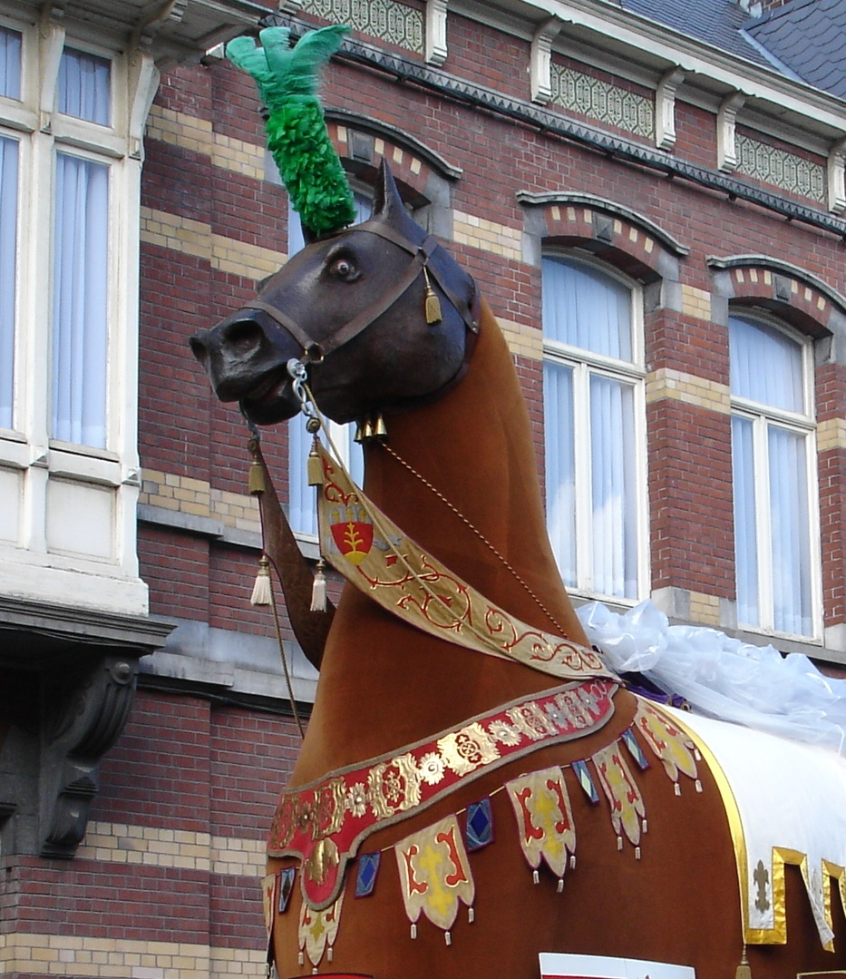 own work